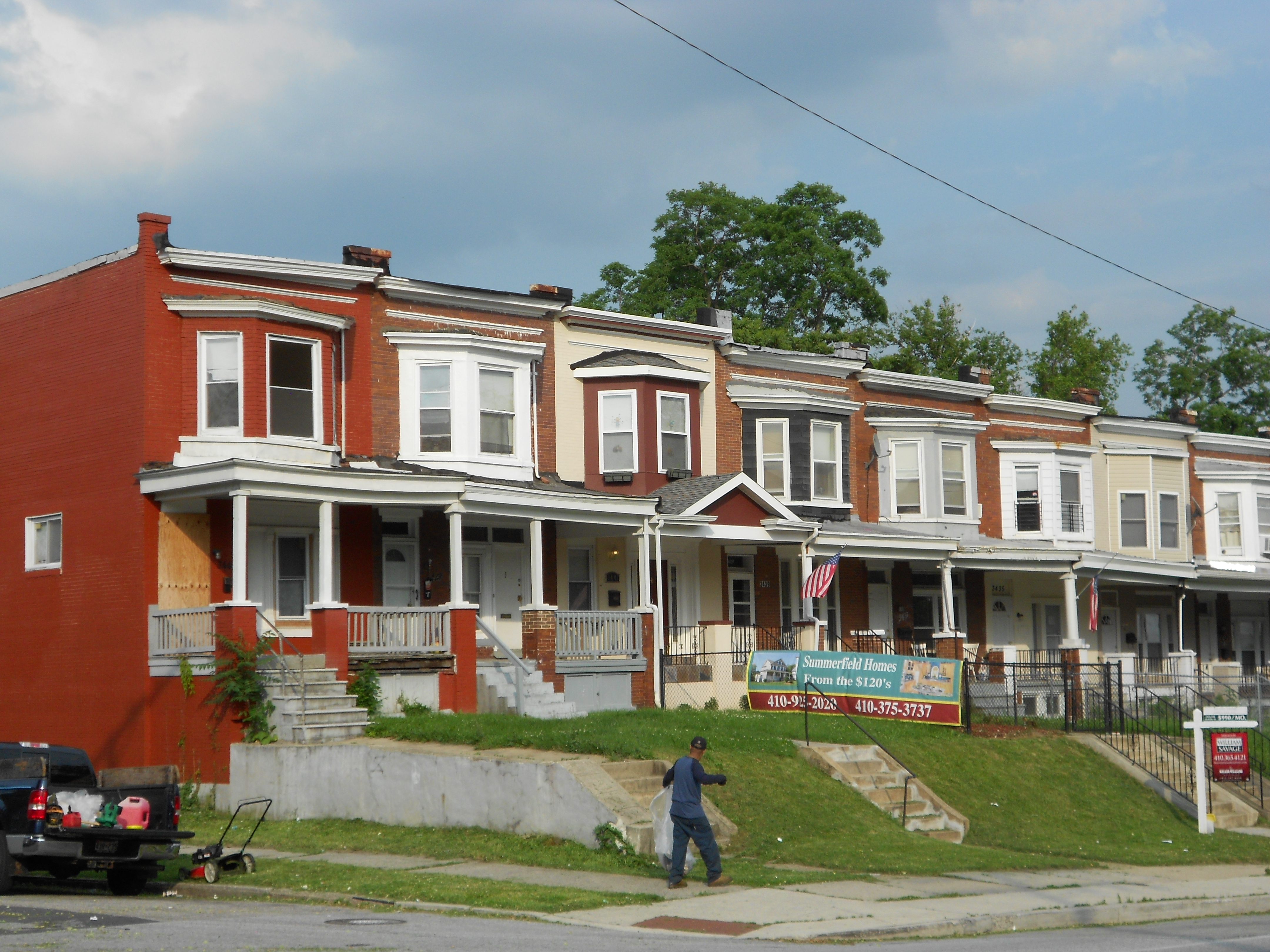 3400 block of Reistertown Road just SE of Suffolk in the Park Circle Historic District Listed on the NRHP on December 4, 2008 The historic distric is roughly bounded by Overview Ave., Shirley Ave., Cottage Ave., and Henry G. Parks Jr. Circle.